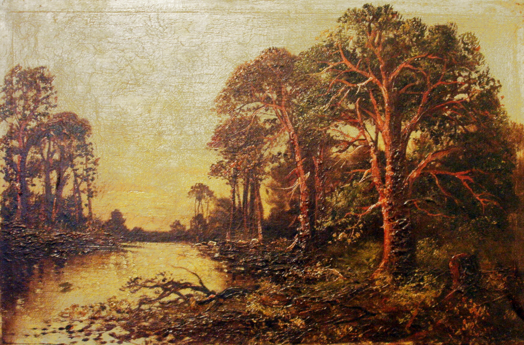 This painting from Karoly Marko the younger is privately owned